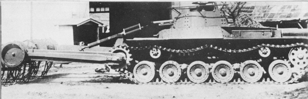 Side view of prototype Type 97 Chi-Yu mine flail tank